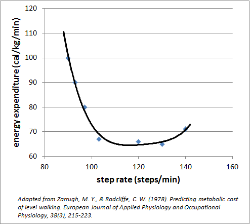 Adapted from Zarrugh, M. Y., & Radcliffe, C. W. (1978)